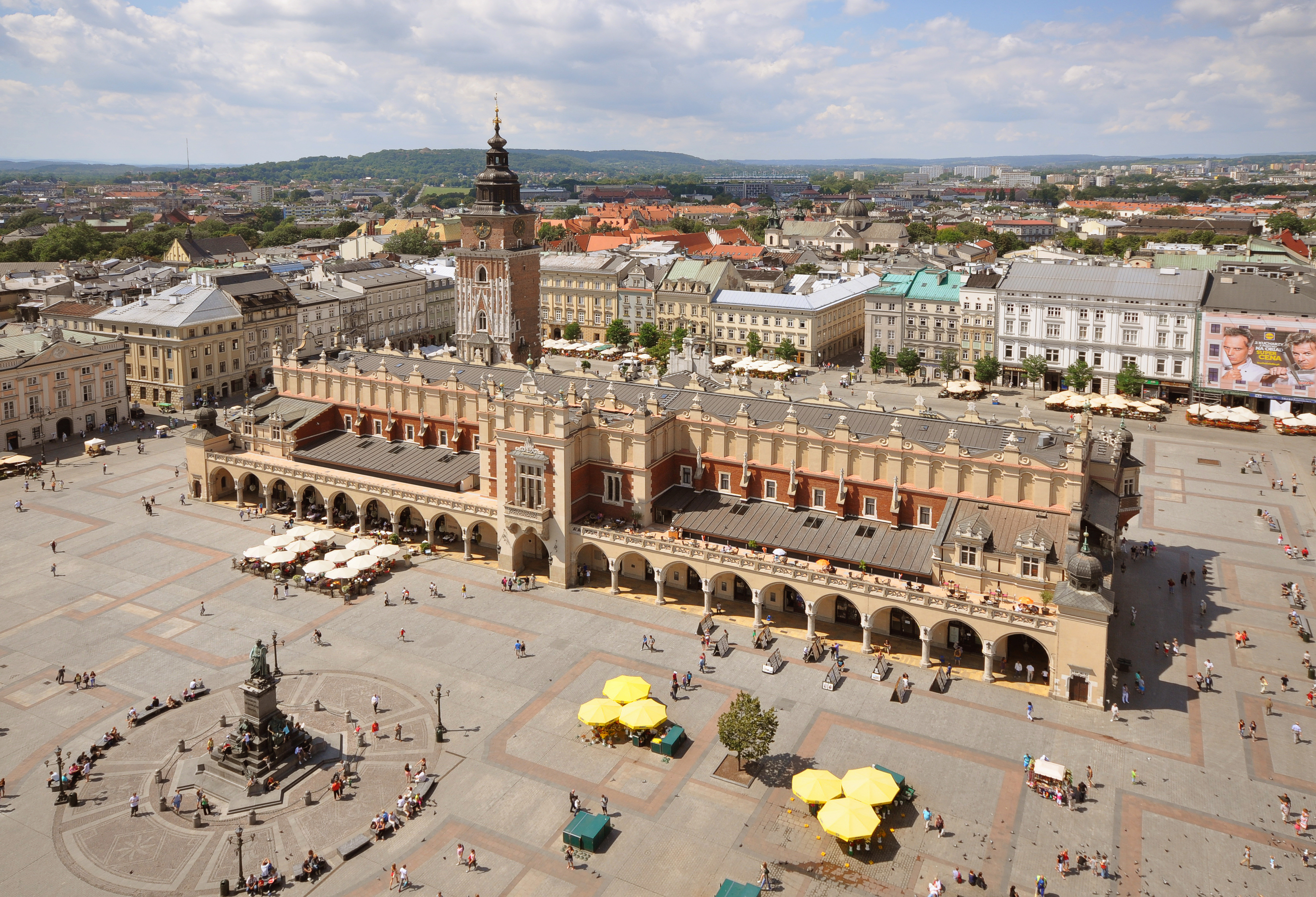 Sukiennice and Main Market Square as seen from St. Mary's Basilica, Krakow, Poland